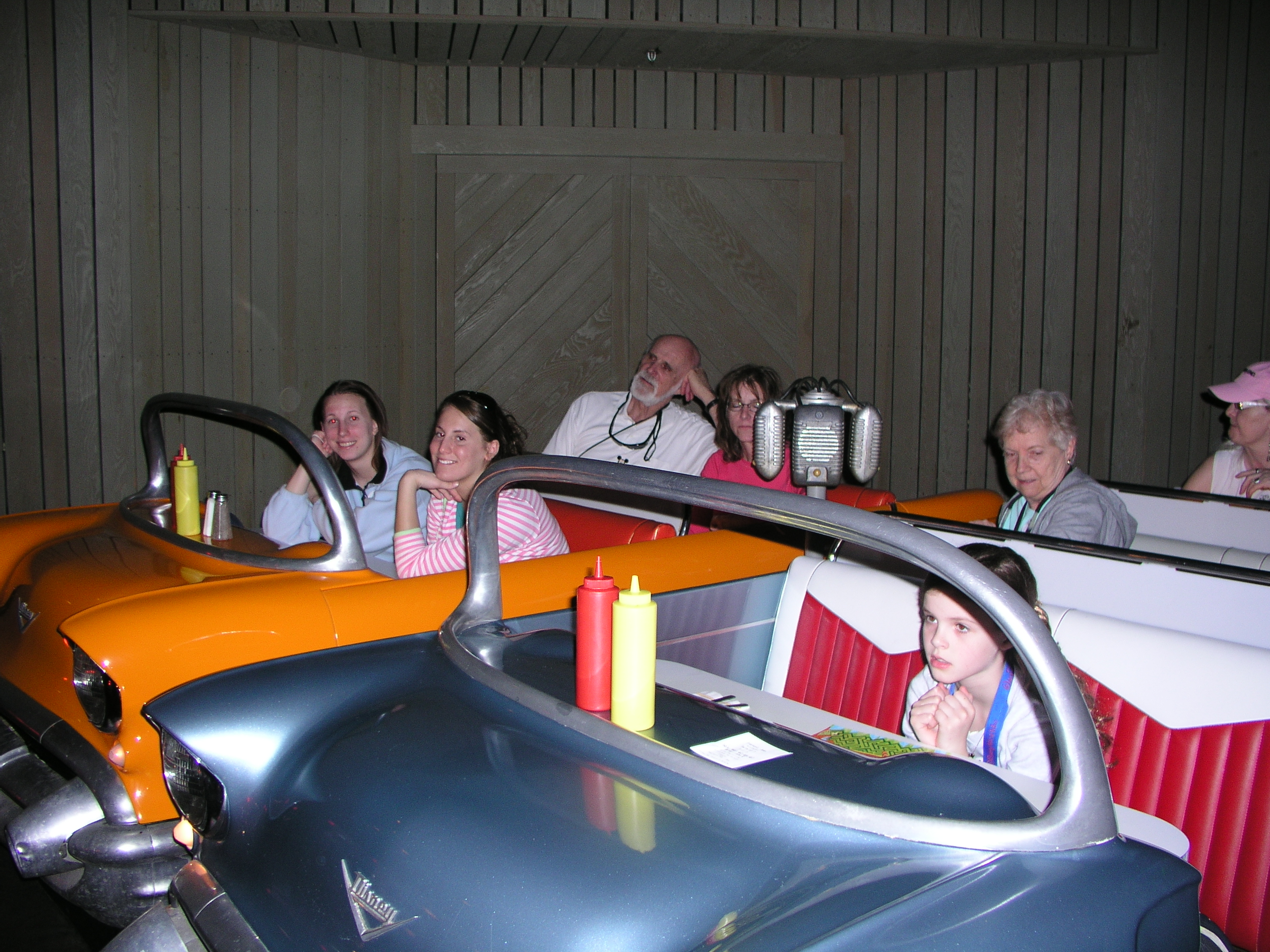 People sitting in booths made to look like 1950s convertibles at the Sci-Fi Dine-In Theater Restaurant